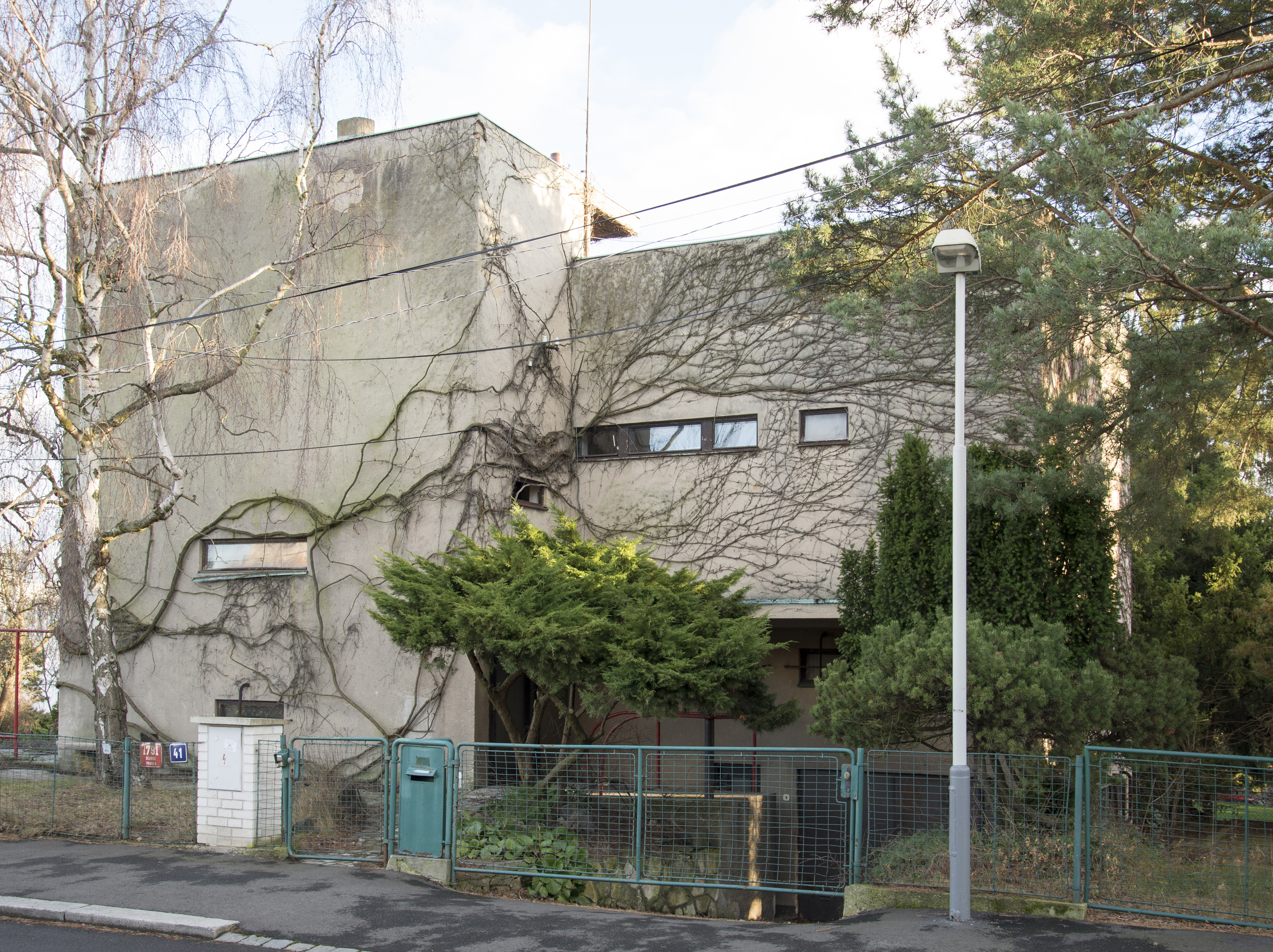 Osada Baba (Baba Functionalism colony in Prague) - House Košťál